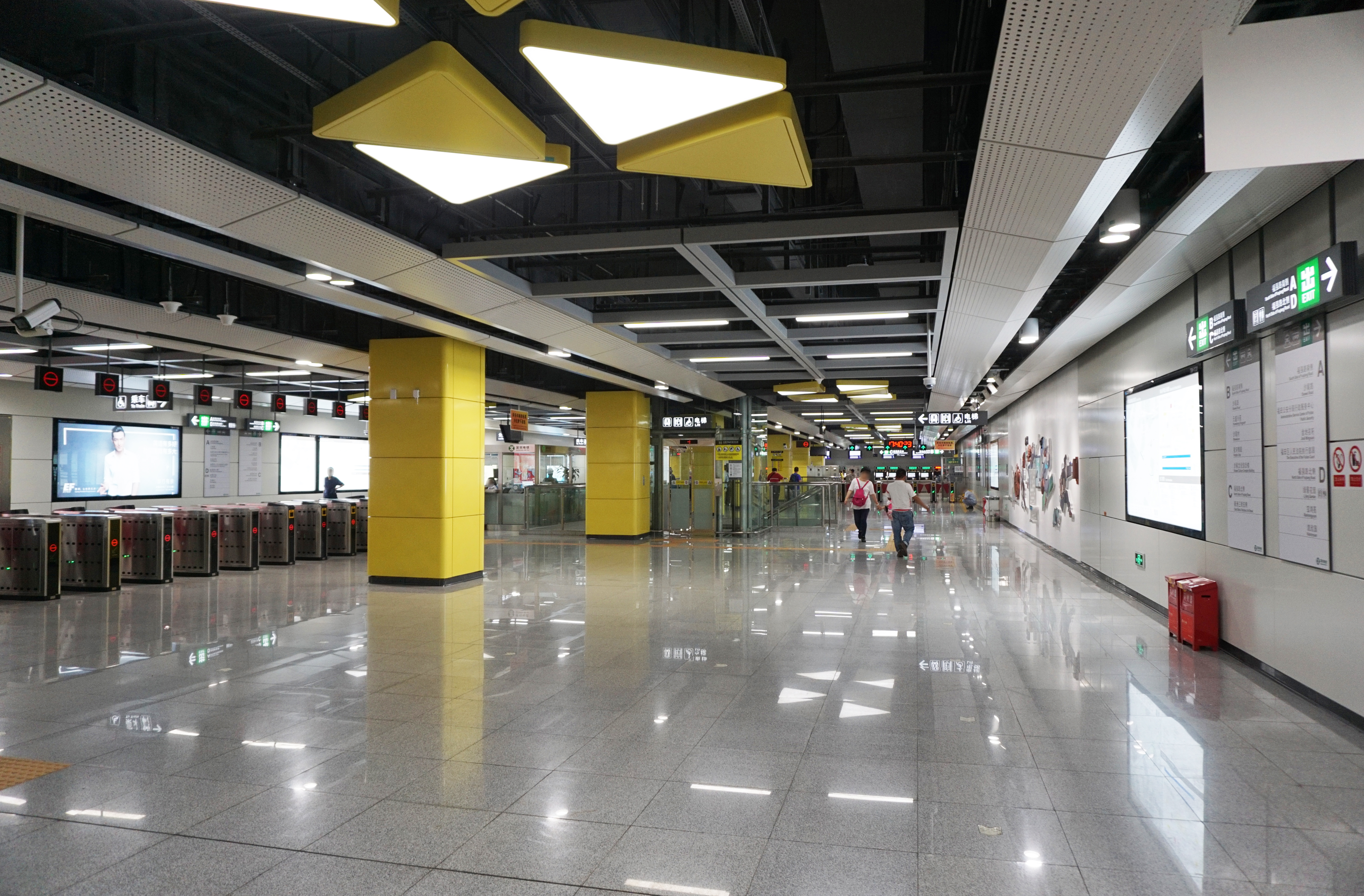 Shawei Station in Futian District, Shenzhen.